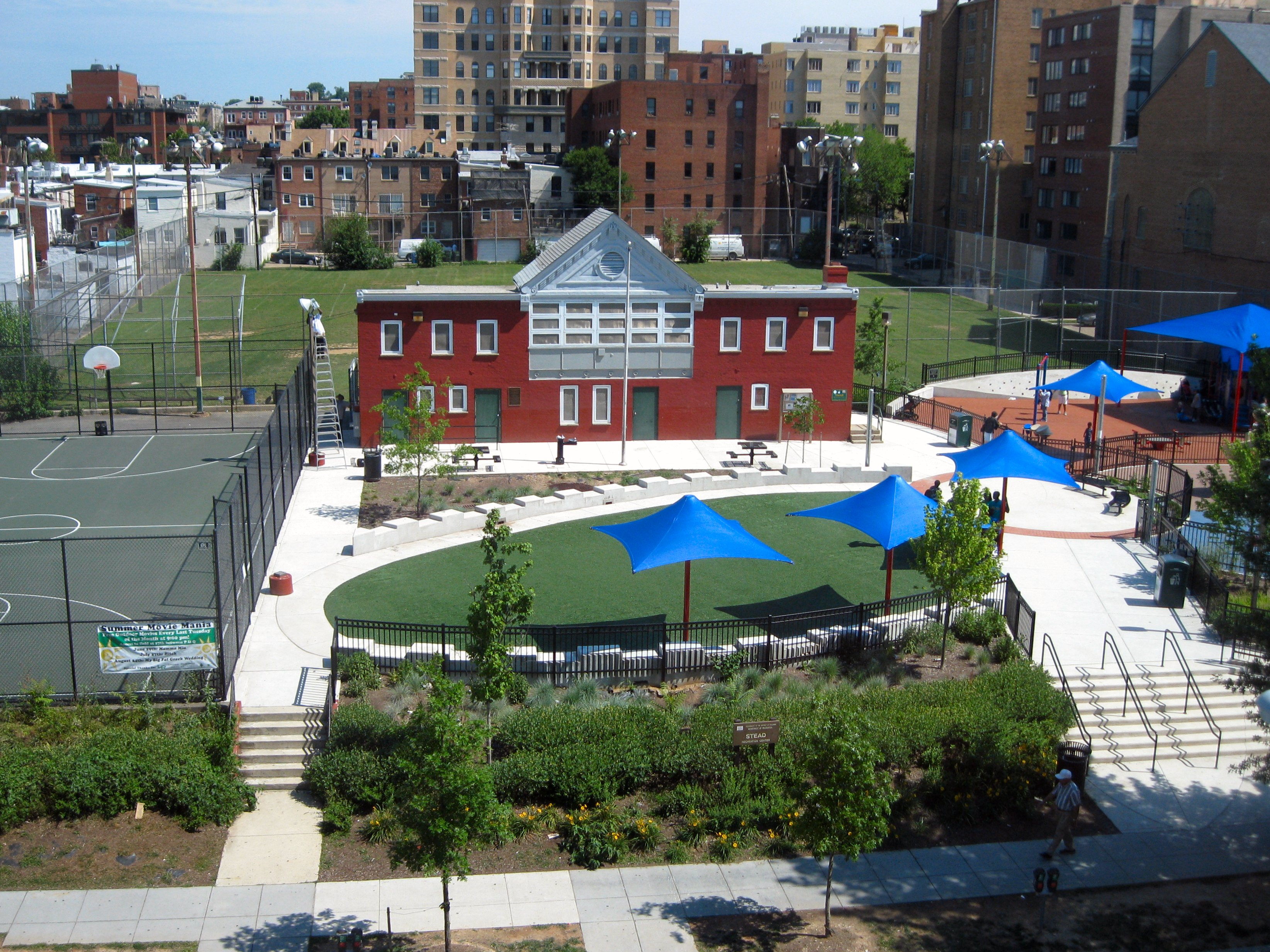 Stead Park, viewed from an office in 1616 P Street NW, across the street from the park.